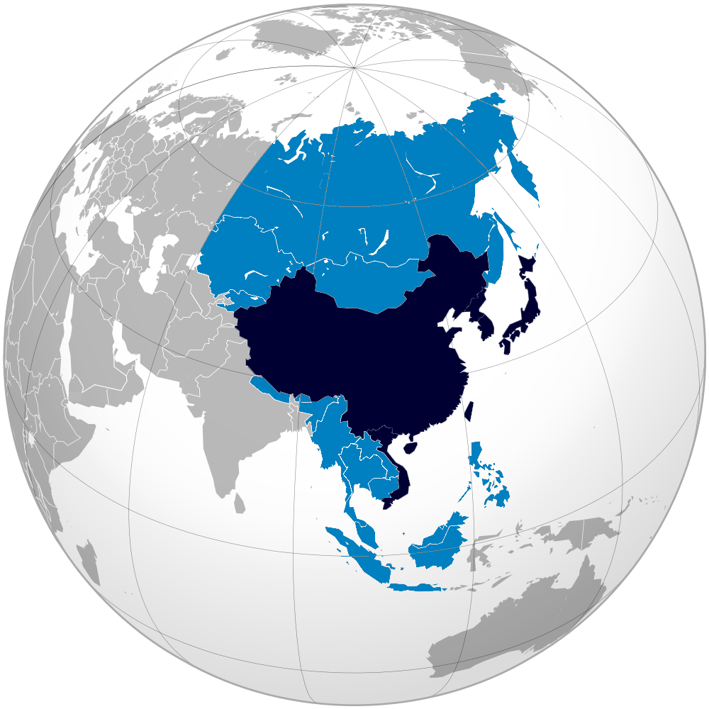 The scope of the East Asian Cultural Sphere Countries which mainly used Chinese characters before Early modern period Major geographical distribution of oversea Chinese Areas has historically been influenced by Chinese culture